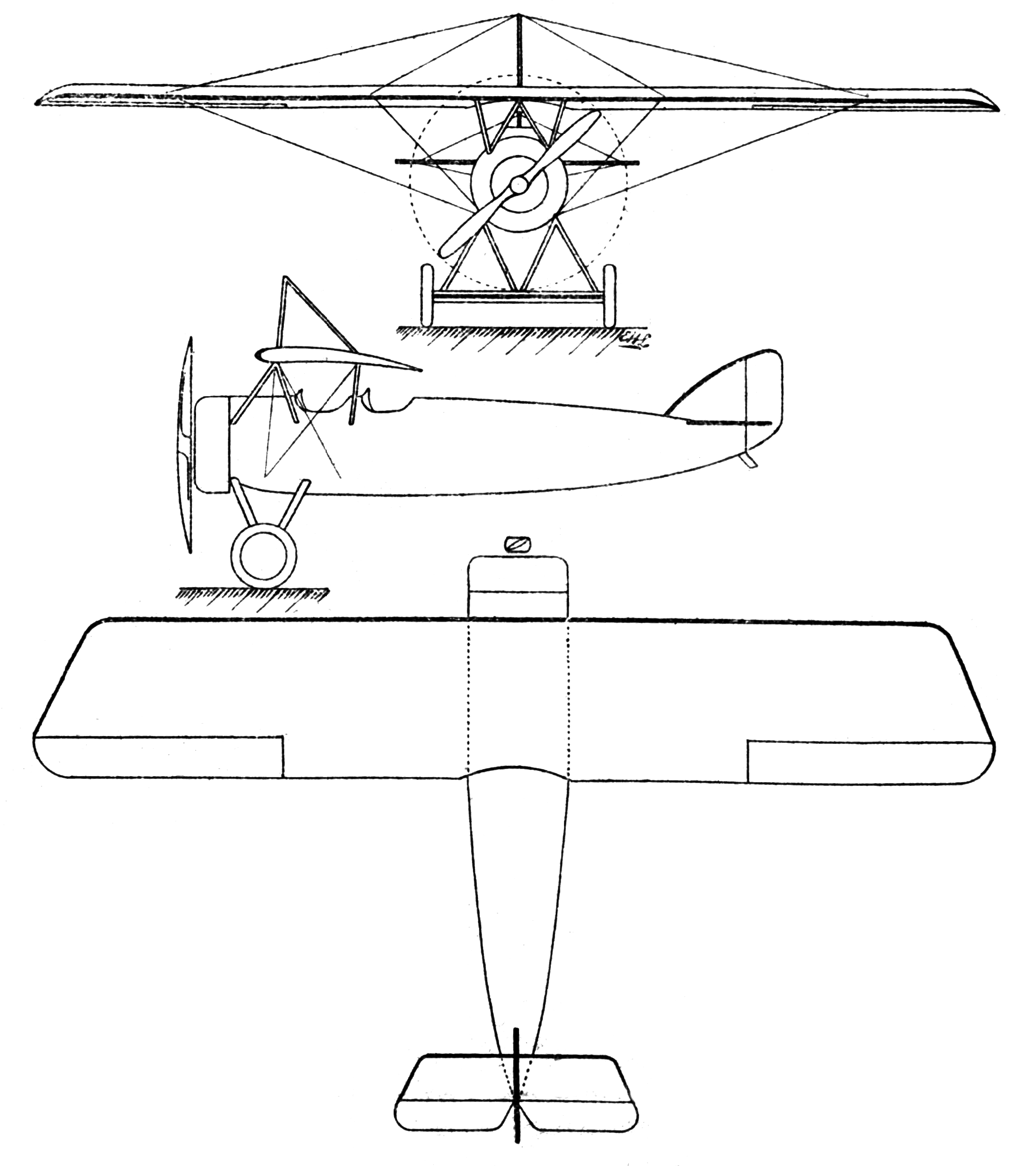 Morane Saulnier AR 3-view drawing from Les Ailes October 20,1921